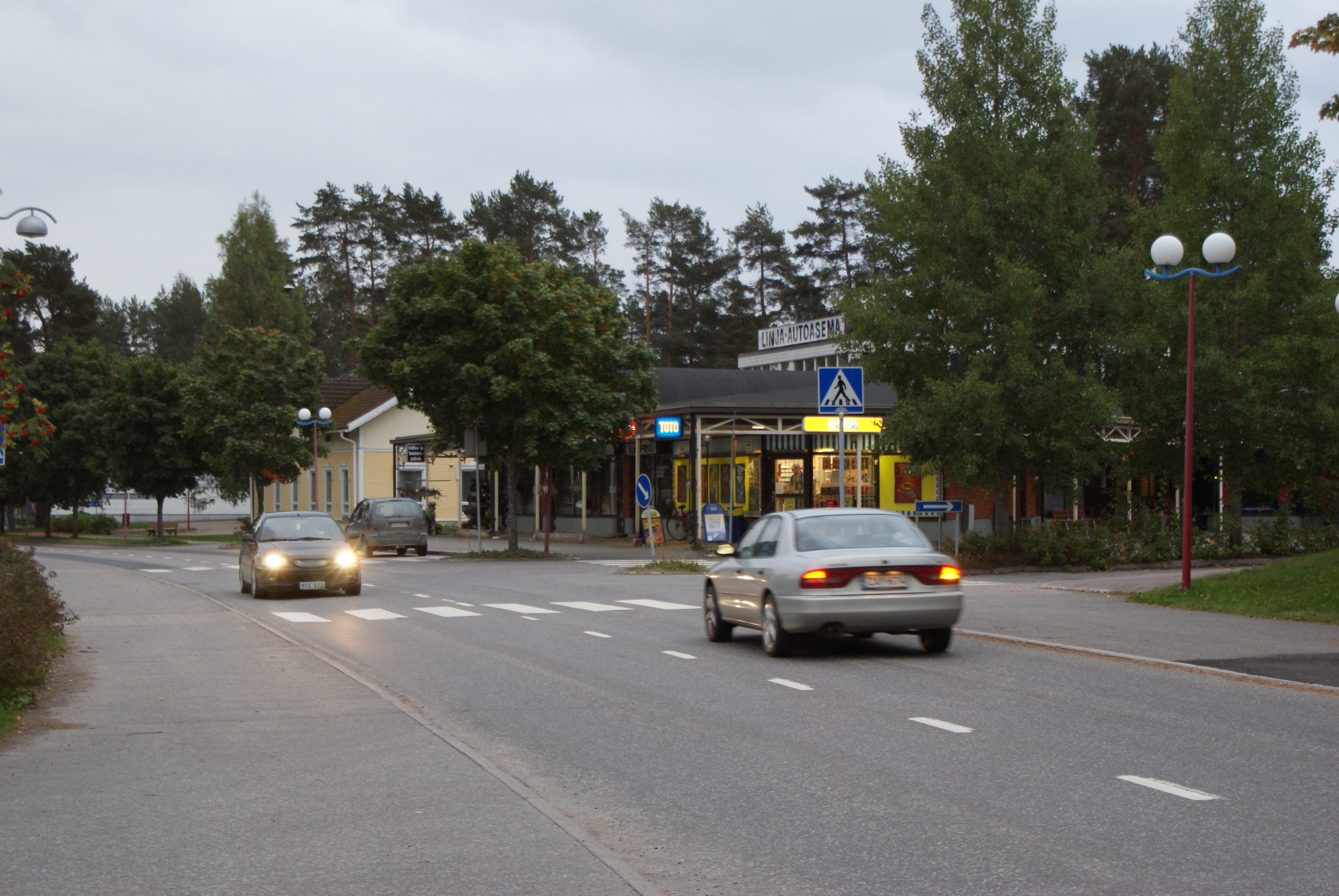 Street in central Rantasalmi